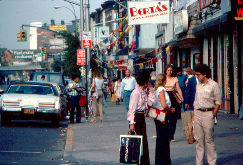 Busy intersection of Kings Highway and Coney Island Ave. (1977)